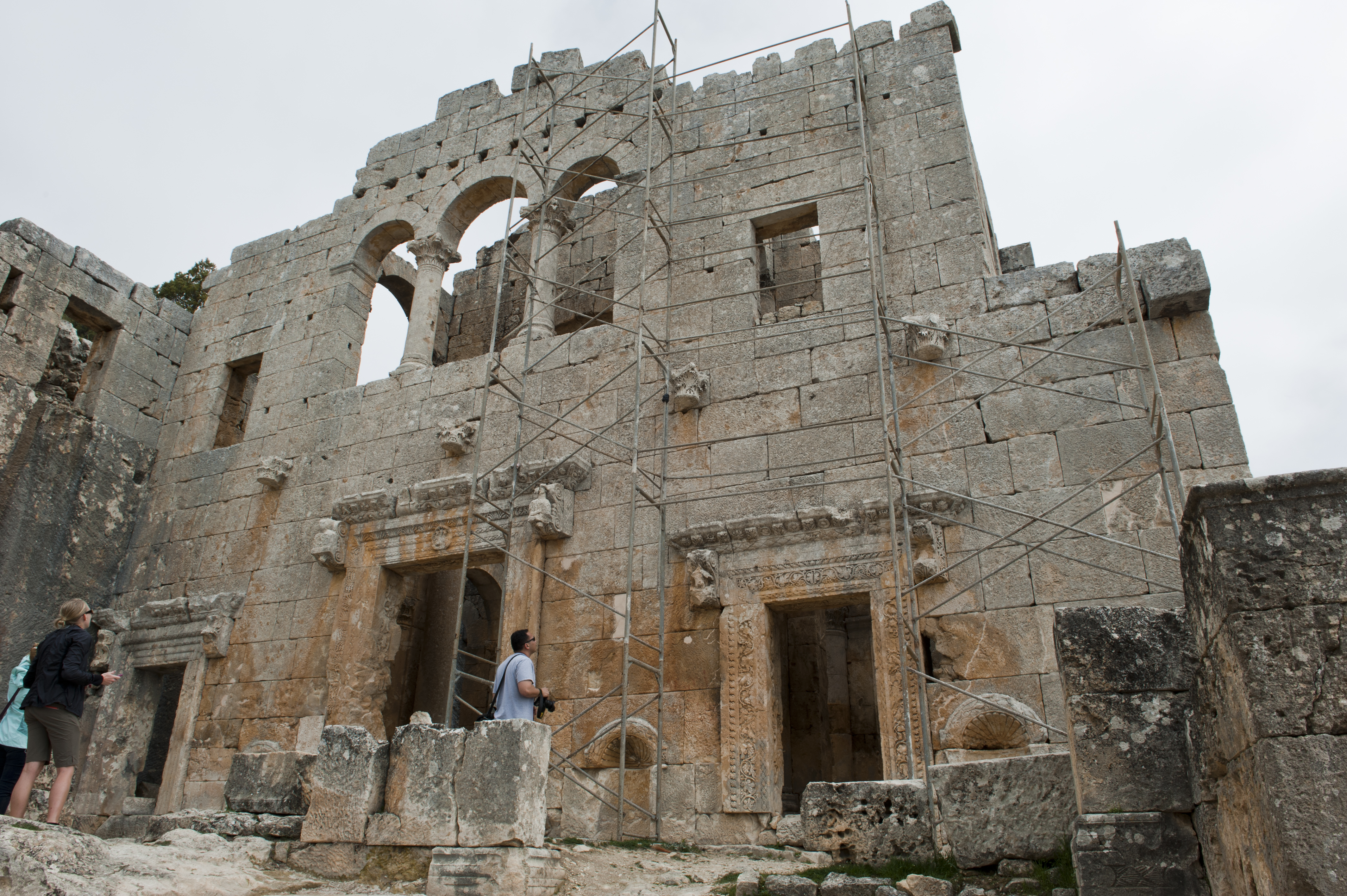 Visitors to Alahan Monastery gaze at its impressive architecture and remains March 31, 2013, in Turkey. Though more than 1,400 years old, many of the remnants of the monastery remain intact. Alahan is one of several trips offered by various base agencies at Incirlik Air Base, Turkey.